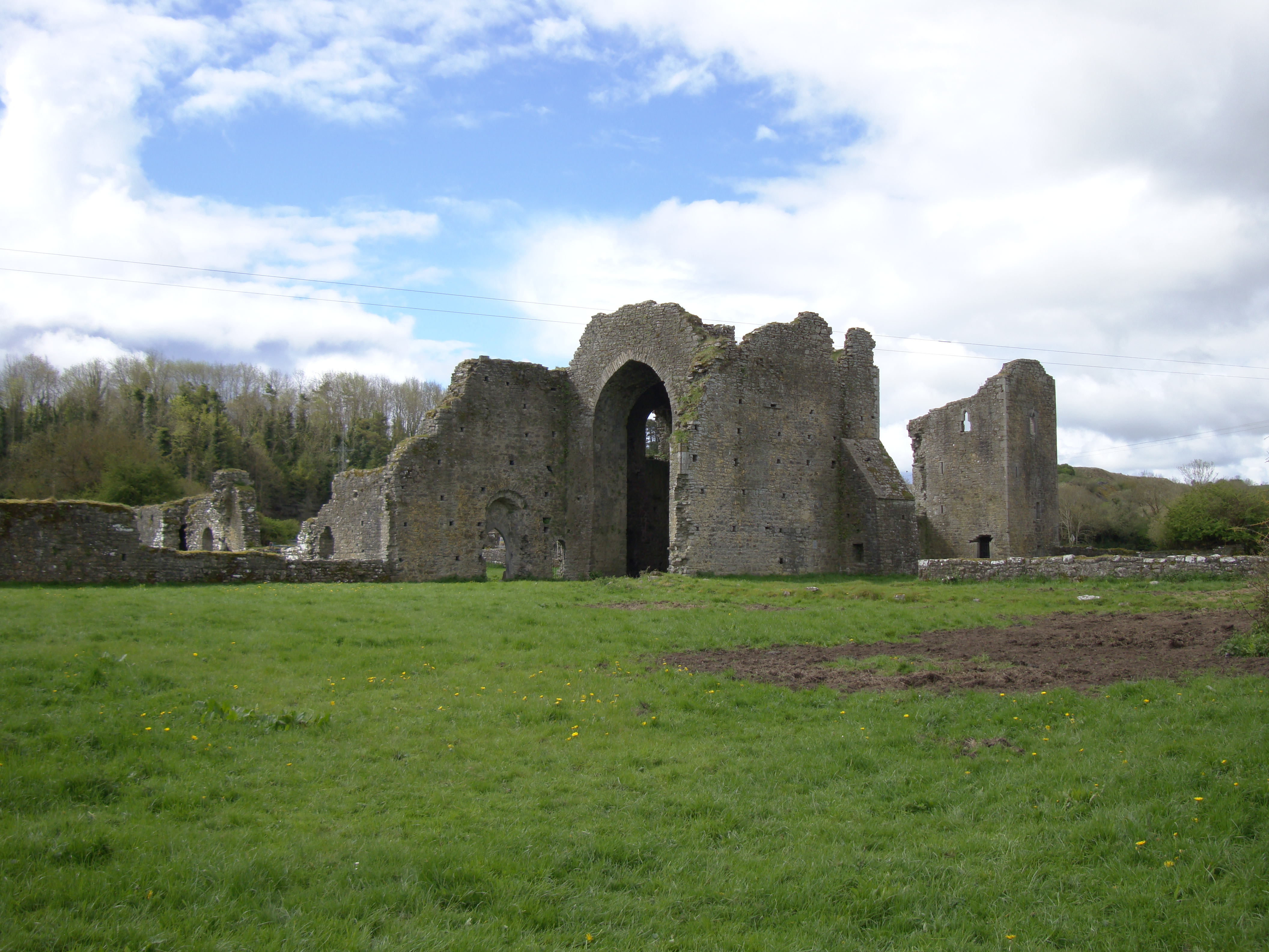 Photograph of the remains of Ballybeg Priory, Co. Cork, Ireland